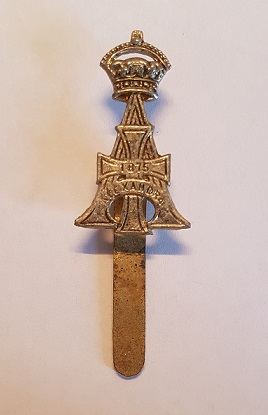 Photo of 19th Royal Hussars Cap Badge from personal collection